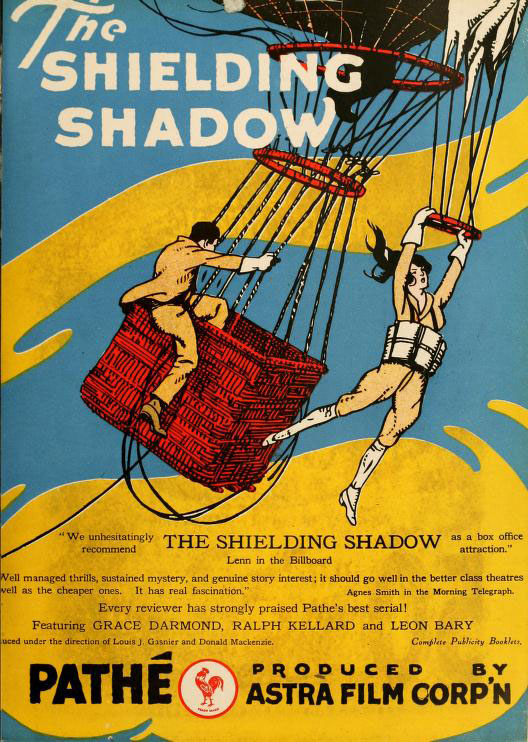 Advertisement in Moving Picture World for the American film The Shielding Shadow (1916).